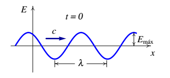 Onda Harmônica